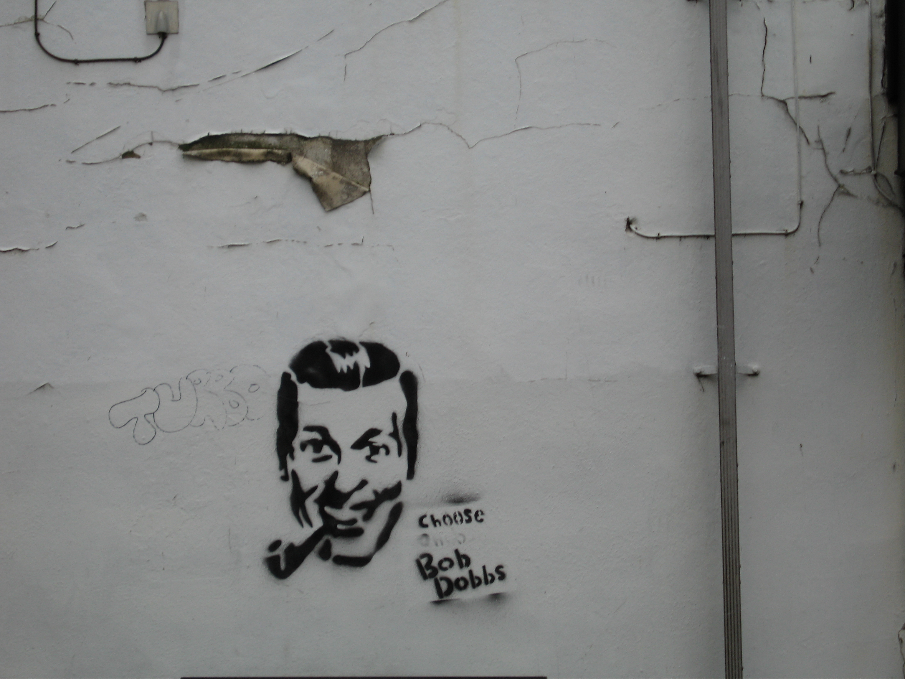 The Church of The Subgenius makes its mark in Stockport Stockport's museum (Staircase House) has an early 20th Century pipe designed for smoking while riding a motorbike.